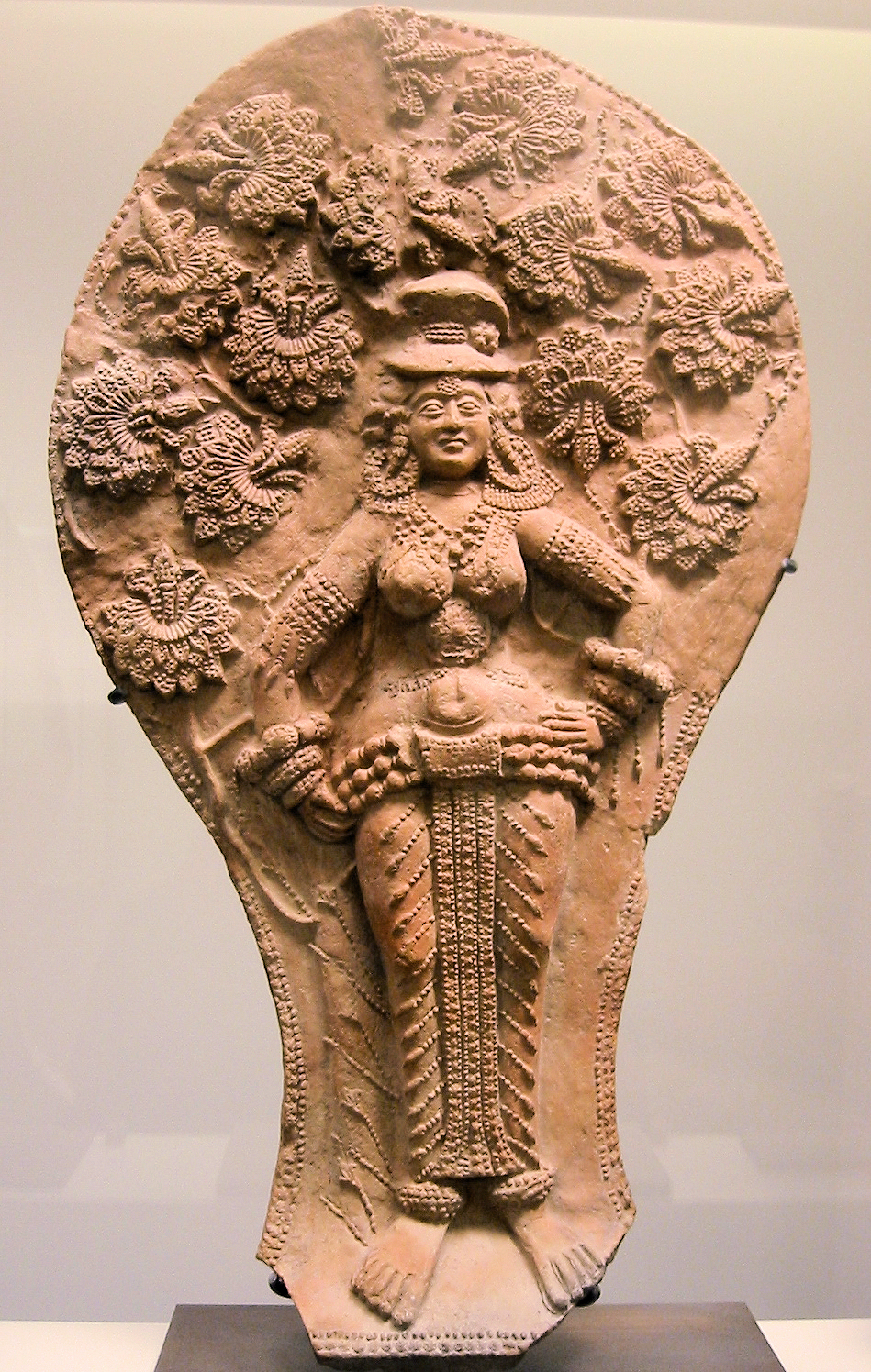 Yakshi. Sunga 2nd-1st century BCE. Musée Guimet. Personal photograph.